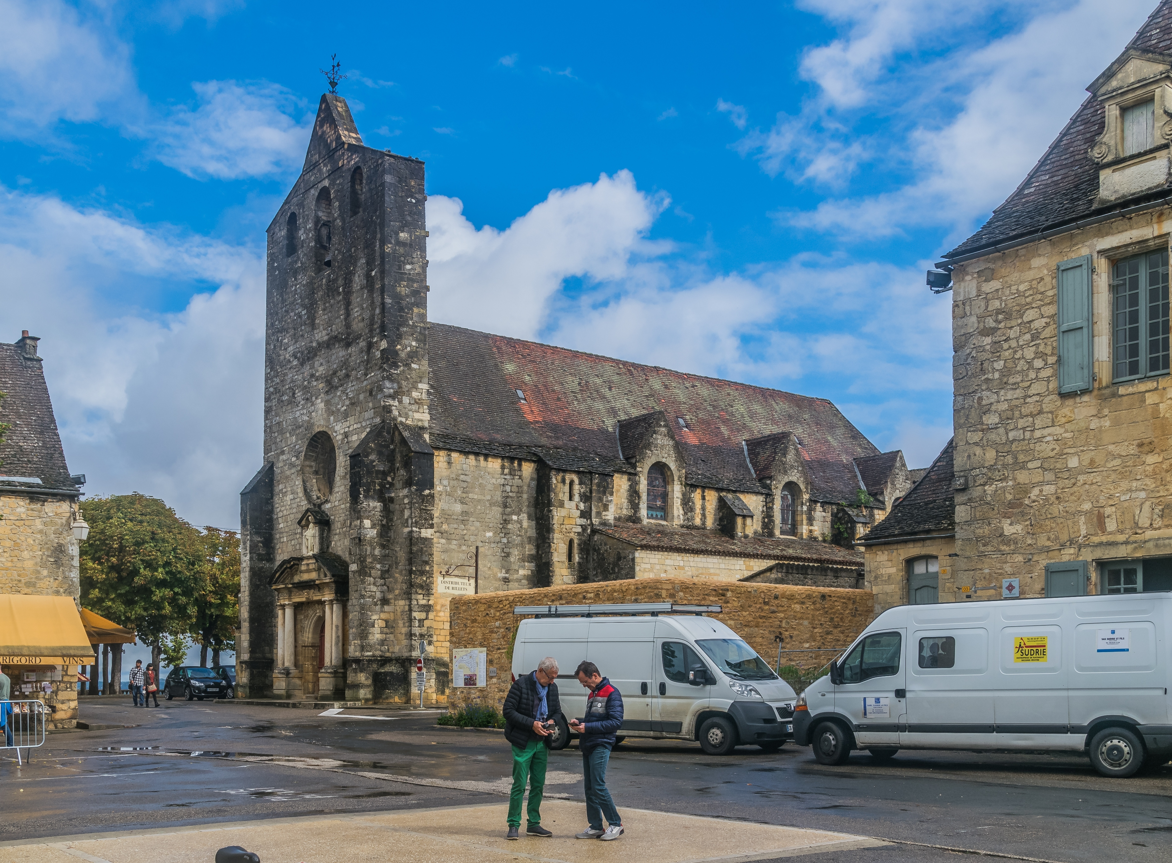 Church of Our Lady of the Assumption in Domme, Dordogne, France